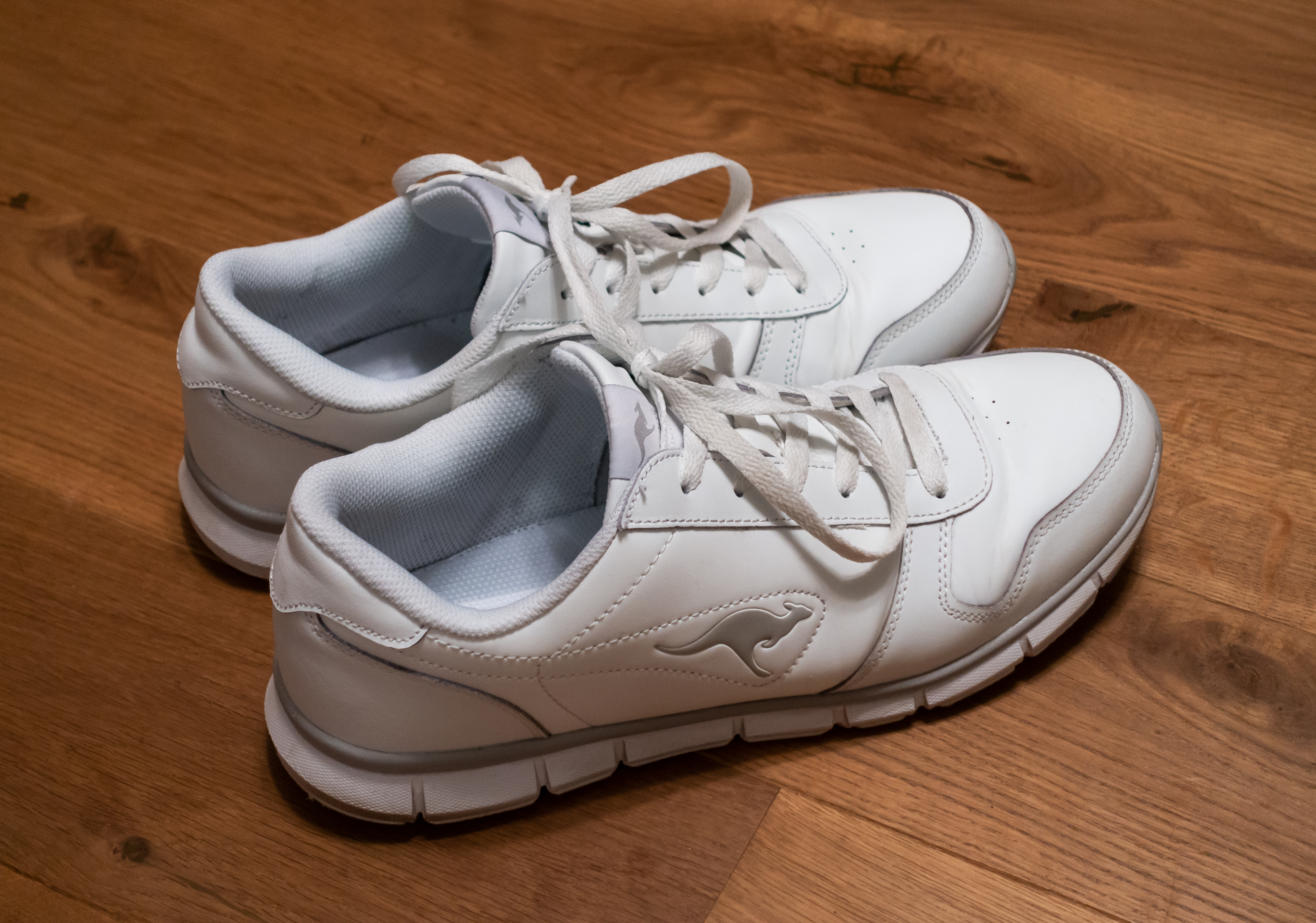 white sneakers from KangaROOS, the pocket is below the tongue